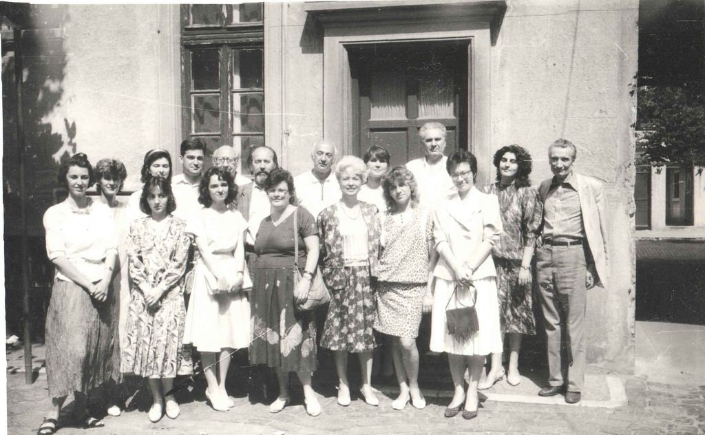 Promoția 1990 Facultatea de Limbi și Literaturi Străine. Cu Solomon Vaimberg, Albert Kovacs, Victoria Frîncu, Mircea Gheorghiu, Aneta Dobre, Gheorghe Barbă, Mihail Marinescu